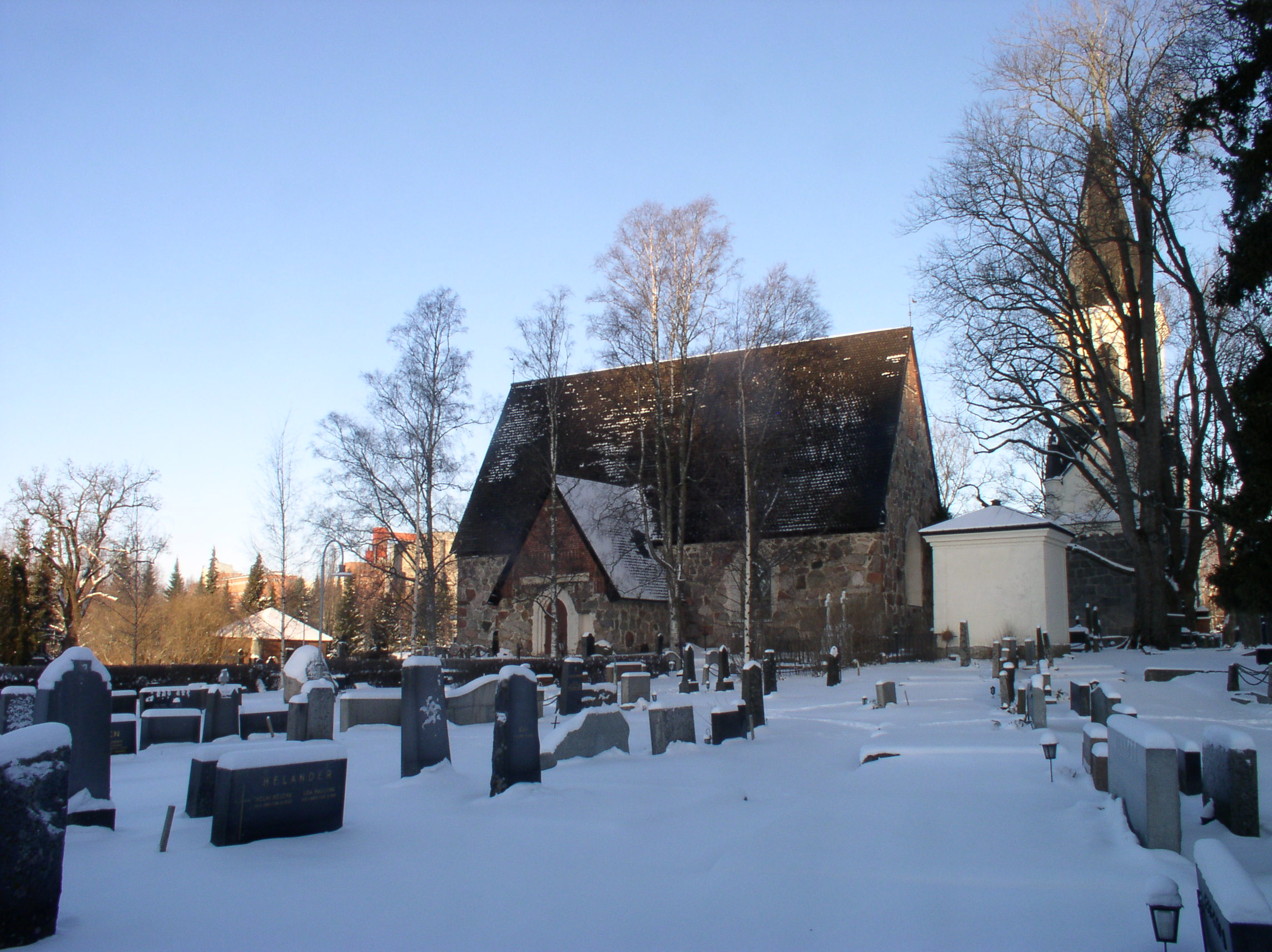 Vanaja church, Hämeenlinna, Finland